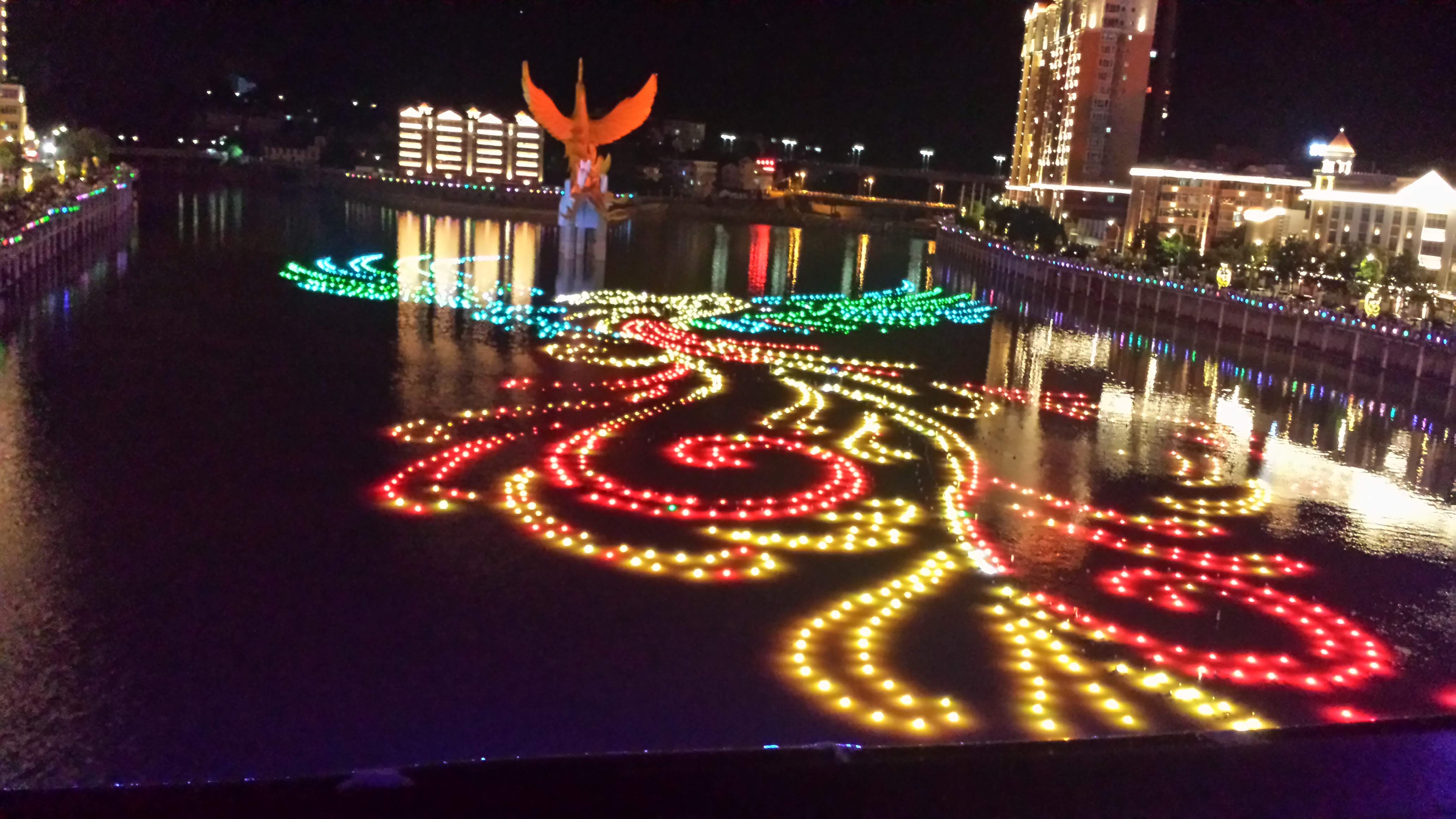 Light and fountain phoenix in center of Fengxian.